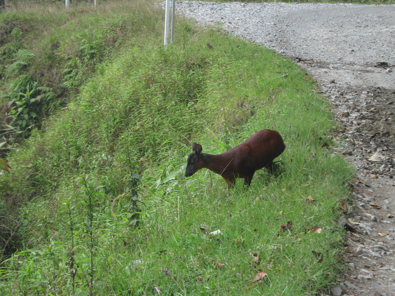 Mazama rufina